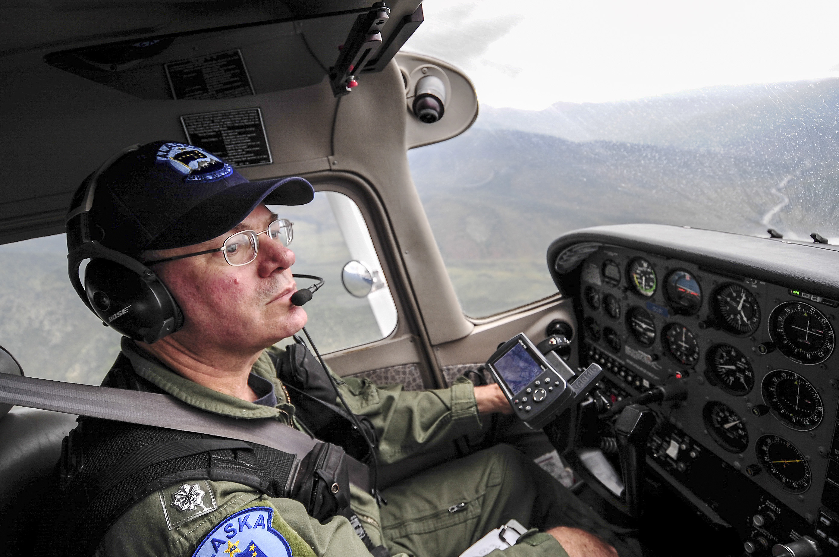 Mark Biron, Civil Air Patrol 71st Composite Squadron member, pilots a CAP Cessna 172 over the Joint Pacific Alaska Range Complex during RED FLAG-Alaska 13-3 Aug. 19, 2013. The 71st CS participated during RF-A, simulating low-flying threats for participating blue forces. (U.S. Air Force photo by Senior Airman Zachary Perras/Released)